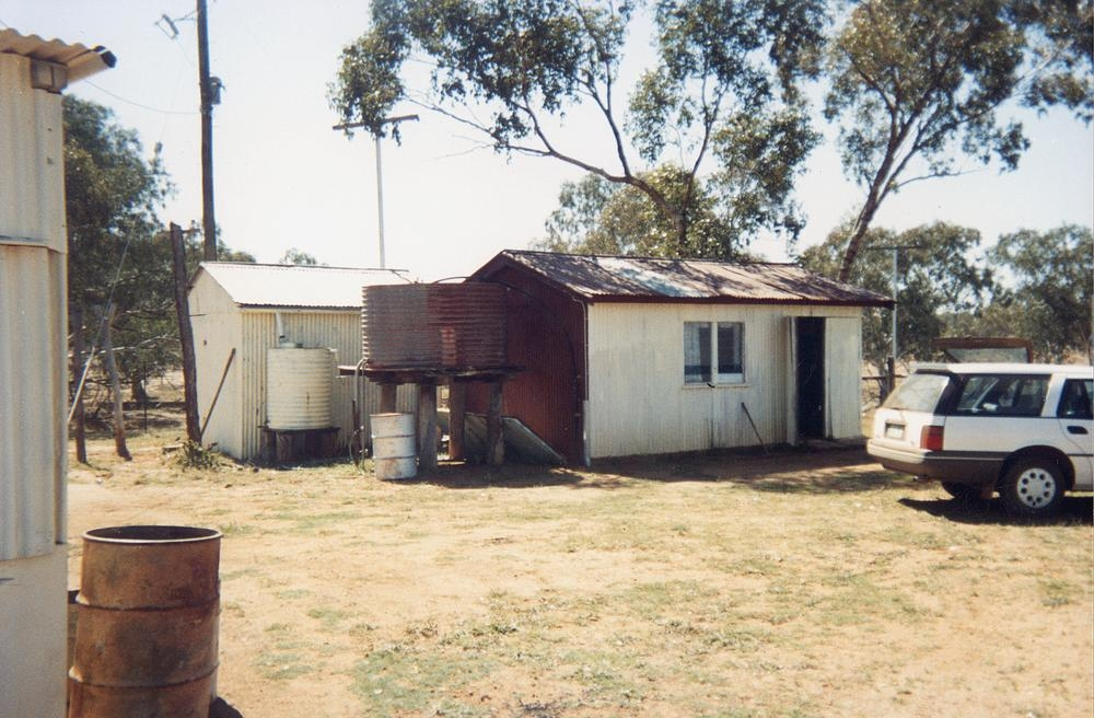 Nebine Centre Library, Murweh Shire, Queensland, 1990. The Library is a timber shed with corregated iron roof. A corrugated iron tank and stand sits beside the Library.